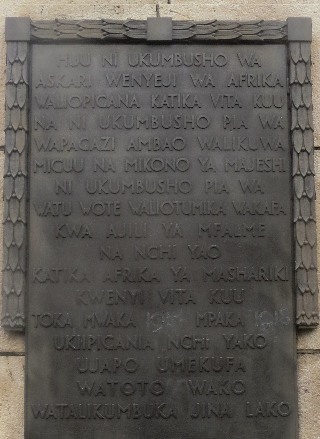 Askari Monument Daressalaam, Test plate Swahili in Latin letters: HUU NI UKUMBUSHO WA ASKARI WENYEJI WA AFRIKA WALIOPIGANA KATIKA VITA KUU NA NI UKUMBUSHO PIA WA WAPAGAZI AMBAO WALIKUWA MIGUU NA MIKONO YA MAJESHI NI UKUMBUSHO PIA WA WATU WOTE WALIOTUMIKA WAKAFA KWA AJILI YA MFALME NA NCHI YAO KATIKA AFRIKA YA MASHARIKI KWENYI VITA KUU TOKA MWAKA 1914 MPAKA 1918 UKIIPIGANIA NCHI YAKO UJAPO UMEKUFA WATOTO WAKO WATALIKUMBUKA JINA LAKO